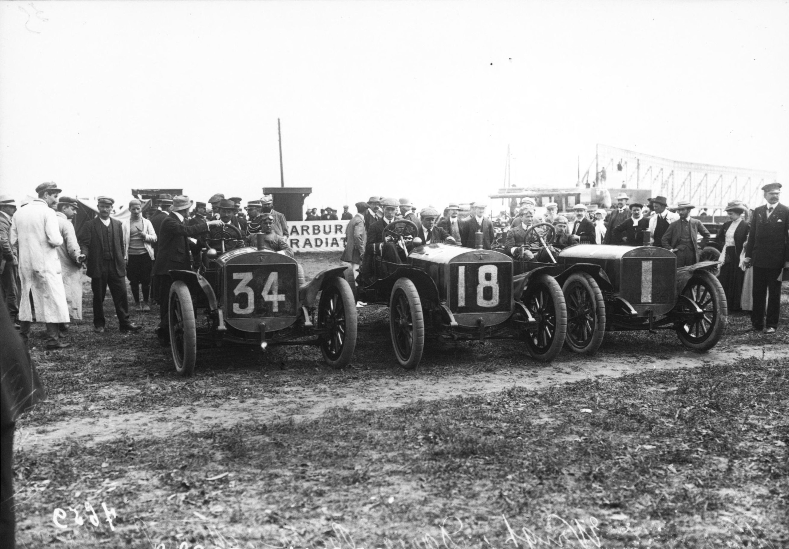 Warwick Wright (Austin, #34), JTC Moore-Brabazon (Austin, #18) and Dario Resta (Austin, #1) at the 1908 French Grand Prix at Dieppe.